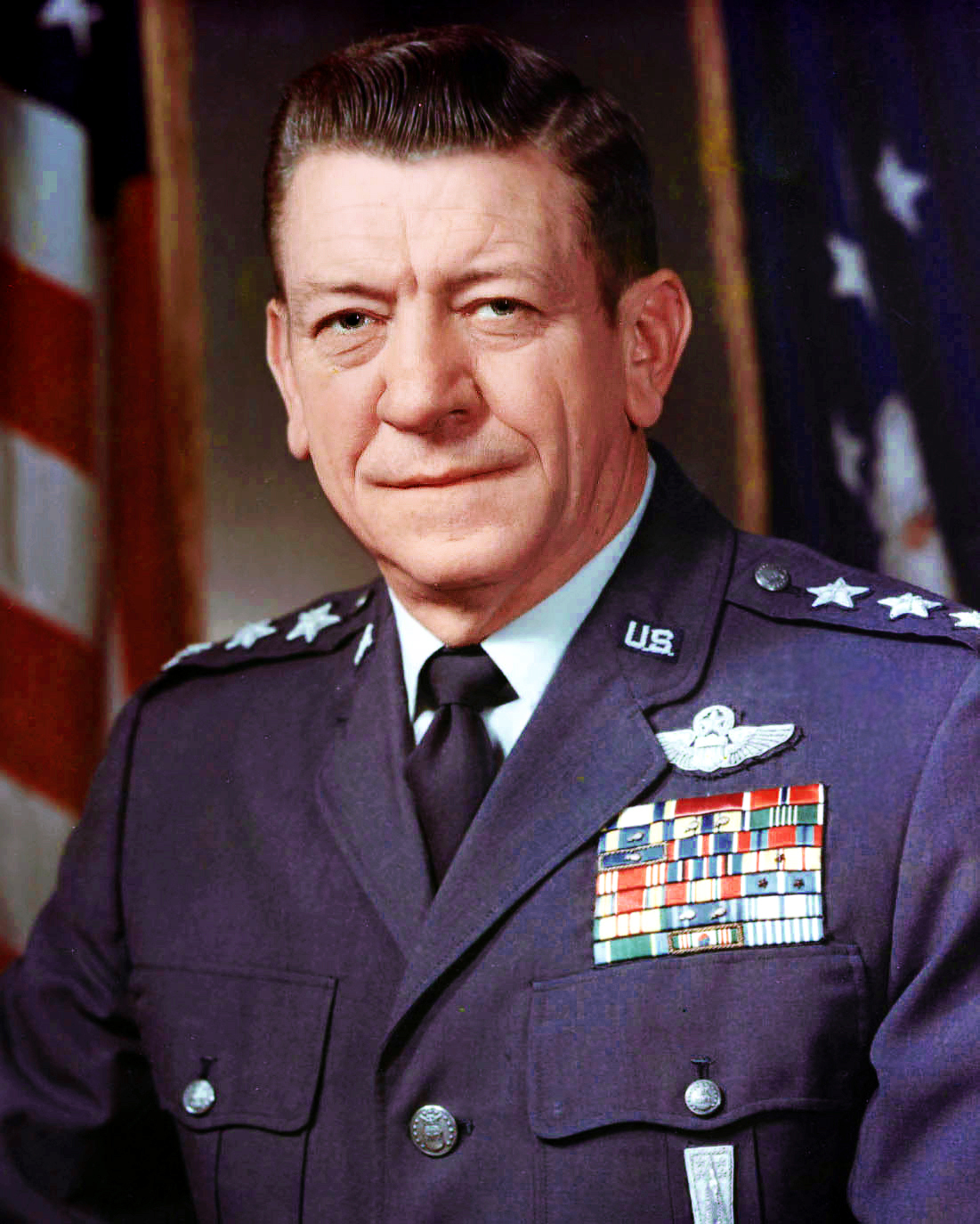 LtGEN Robert E. Huyser, USAF (1924-1997) Dates of service: 1943-1981